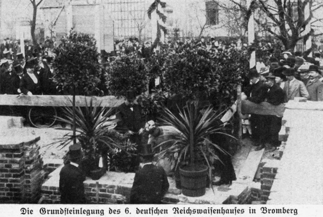 Ceremony 1913